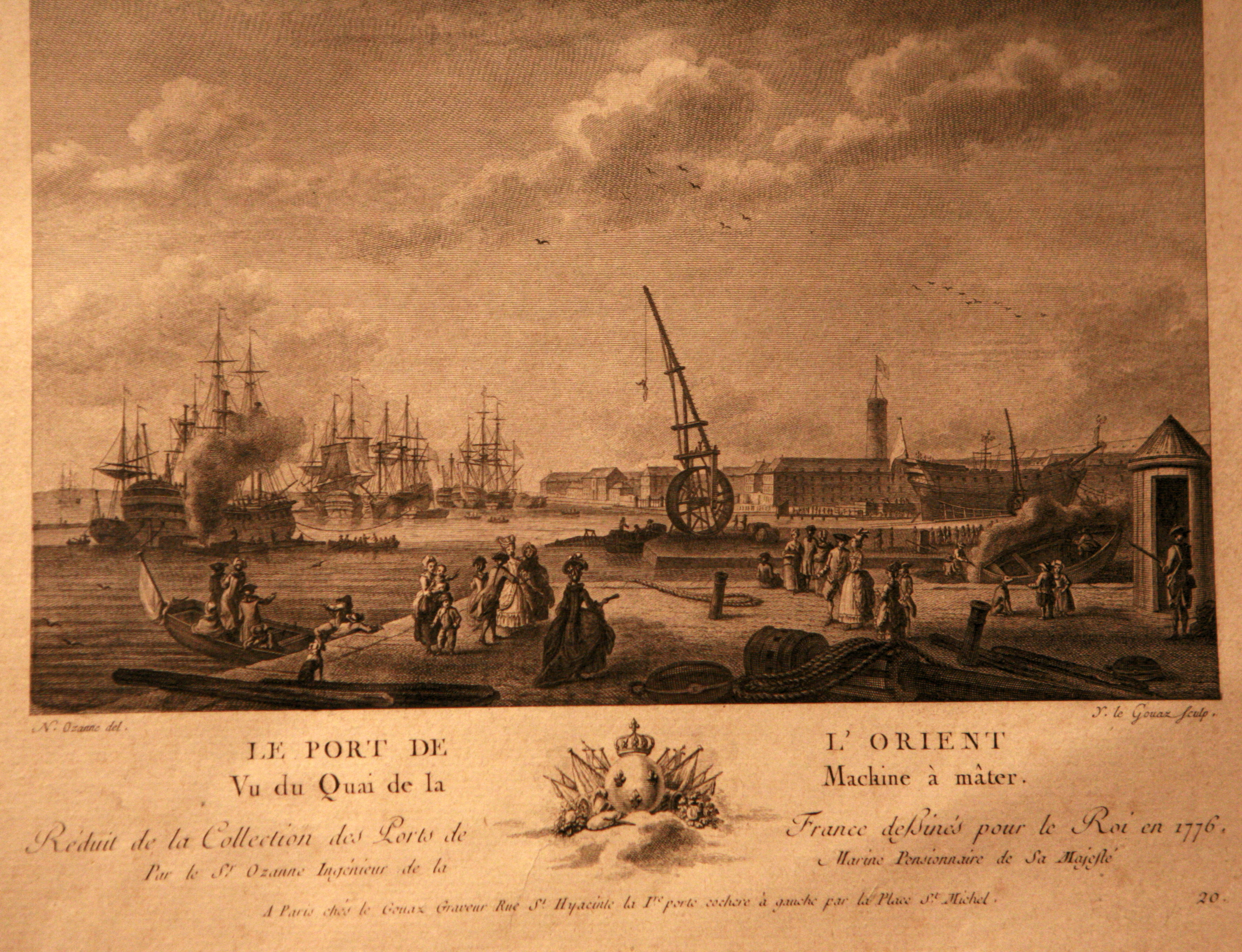 Lorient harbour, as seen from the mating machine, by Yves-marie Le Gouaz. Engraving after Nicolas Ozanne